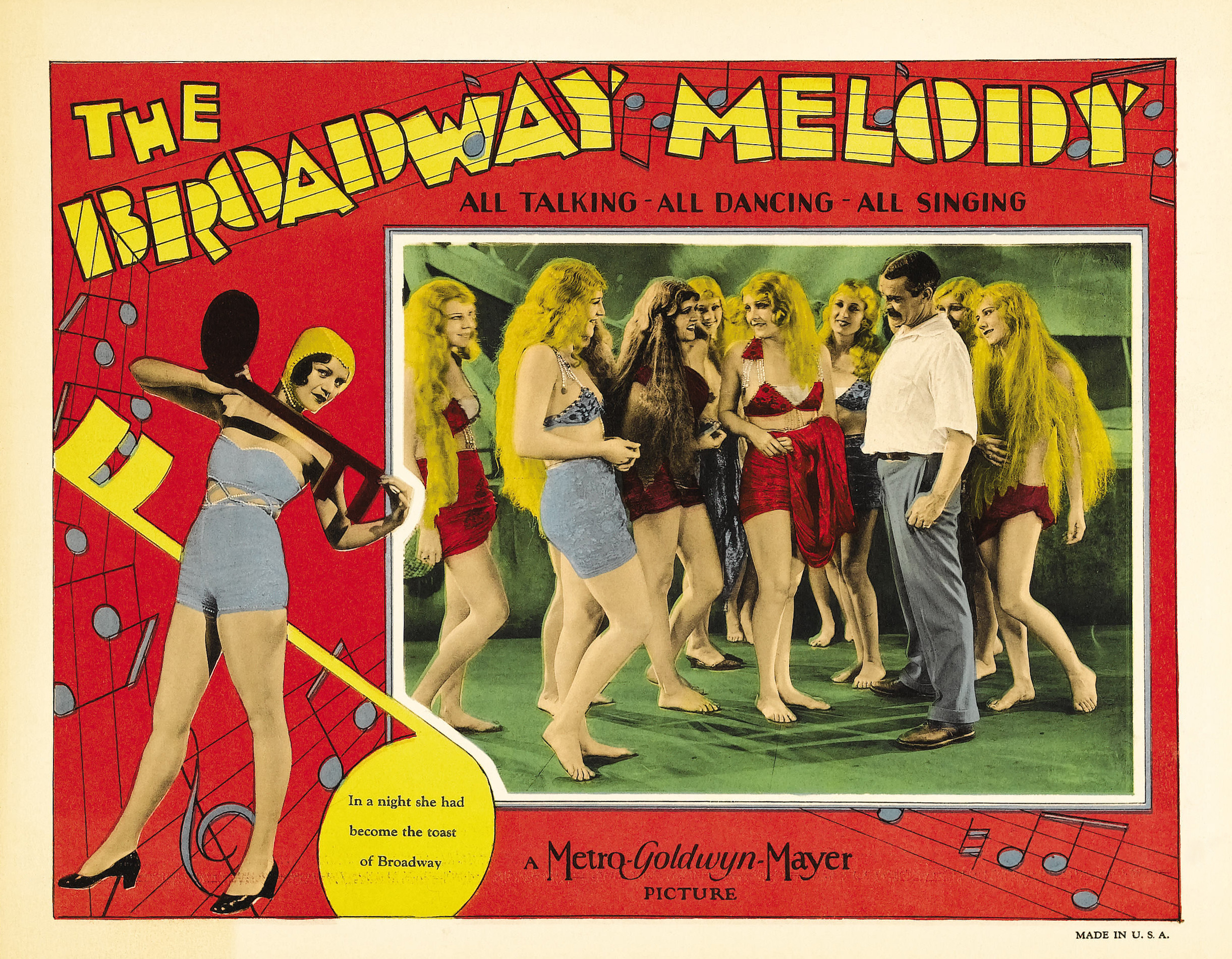 Lobby card for the American musical film The Broadway Melody (1929) with Edward Dillon, Bessie Love, and Anita Page.